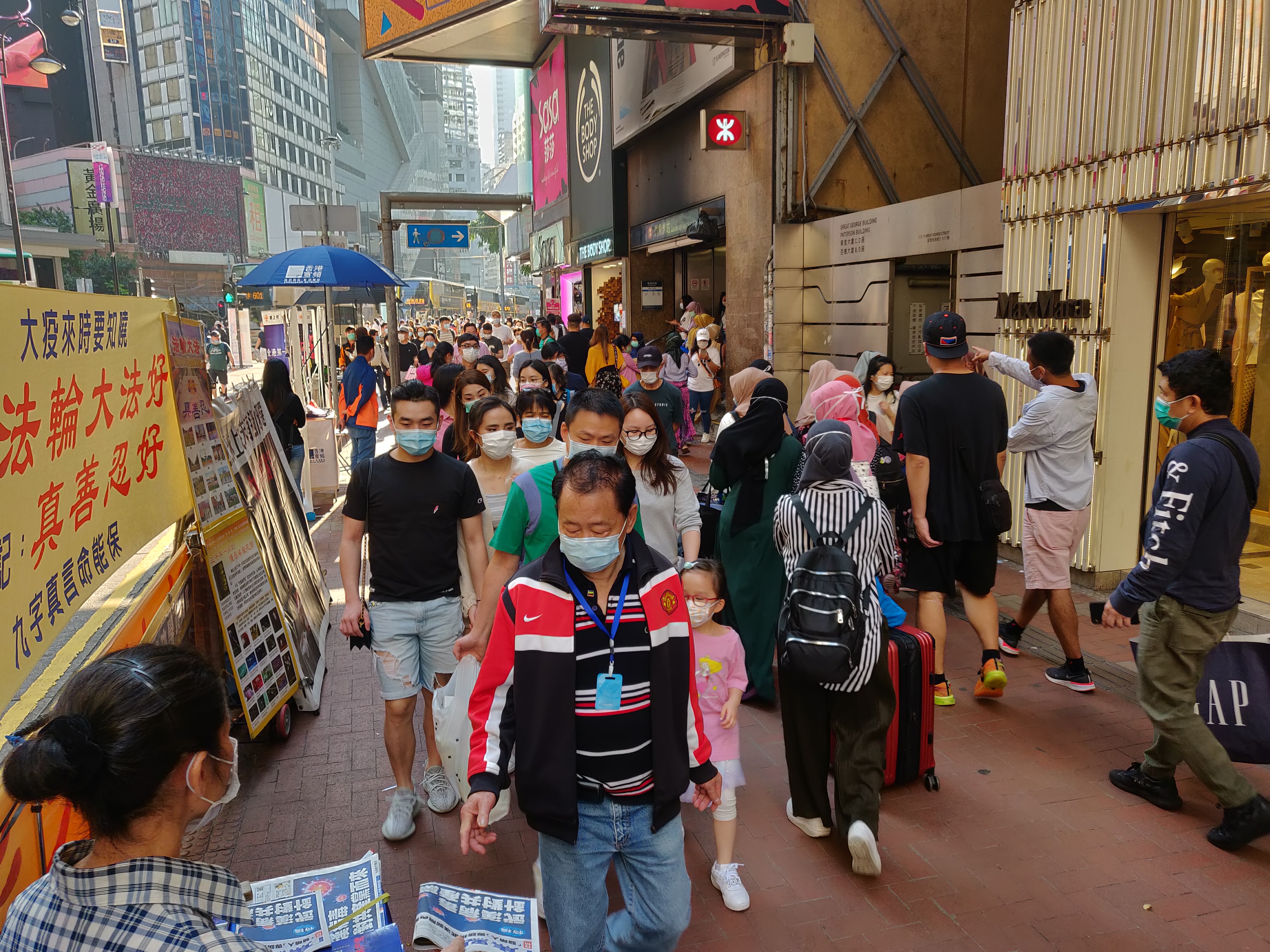 Hong Kong during the COVID-19 pandemic. Hong Kong's Centre for Health Protection has been recommending citizens to wear a surgical mask when taking public transport or staying in crowded places. At least 50 people in the photo (a vast majority) are wearing masks. Location: 17 Great George Street.